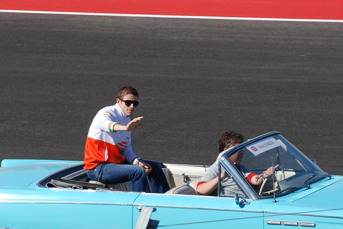 Paul di Resta, United States Grand Prix, Austin 2012